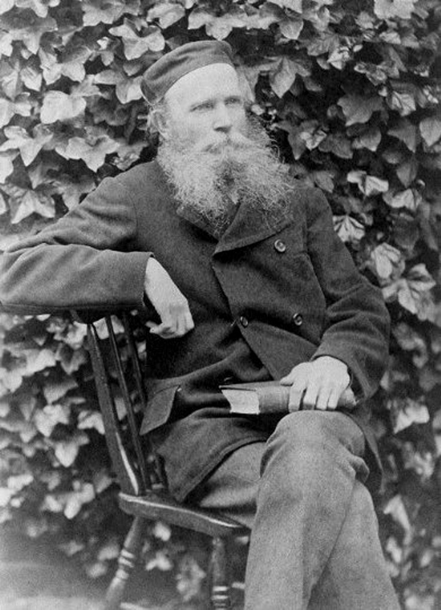 Dr. William Chester Minor (June 22, 1834 – March 26, 1920) was an American army surgeon and one of the largest contributors of quotations to the Oxford English Dictionary. He was also held in a lunatic asylum from 1872 to 1910 after he murdered George Merrett. Part of his story is dramatized in The Professor and the Madman (film). A scene in this movie dramatizes when this photo was taken before leaving the English asylum.